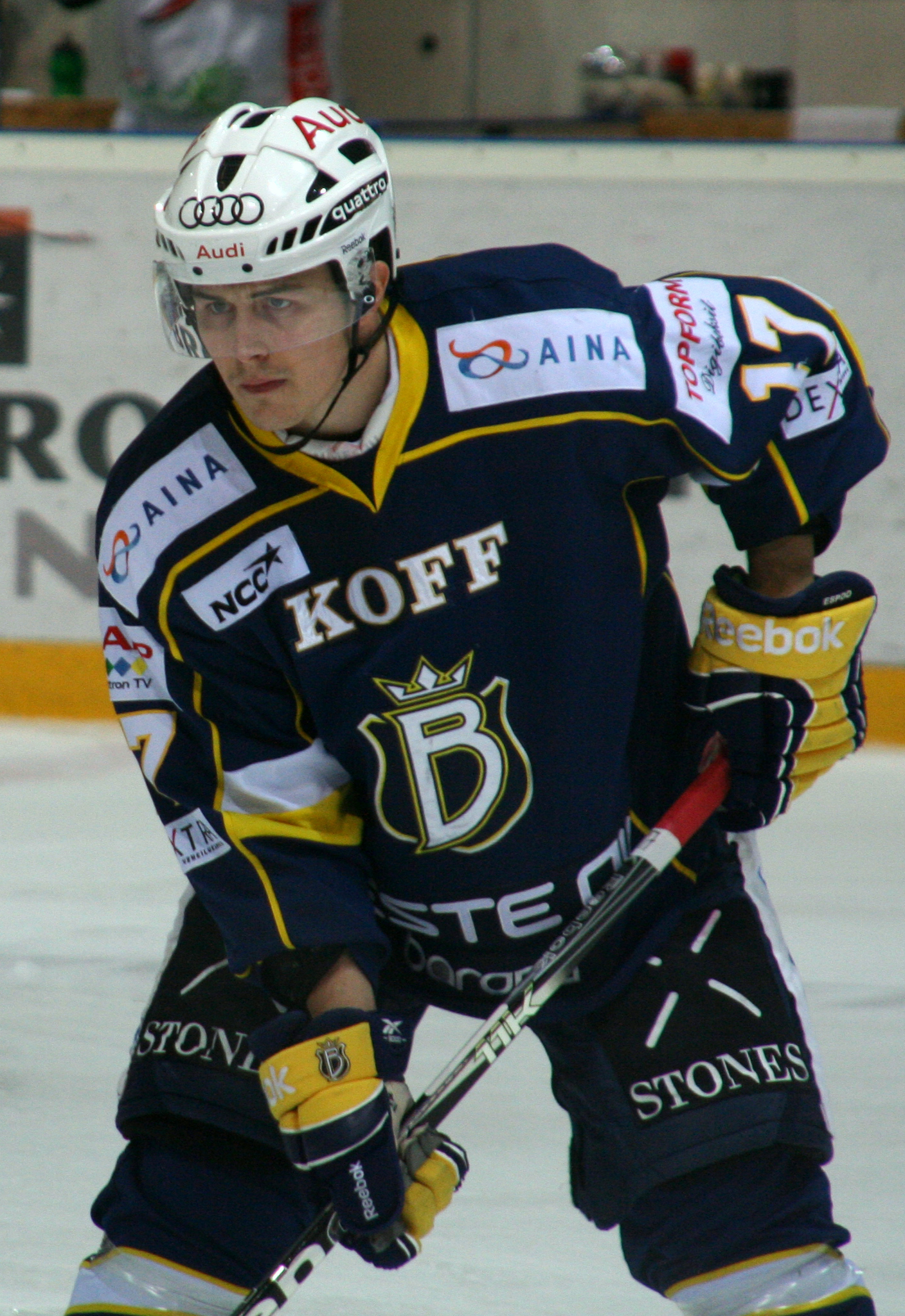 Ice Hockey Team Espoo Blues' Attacker #17 Kristian Kuusela